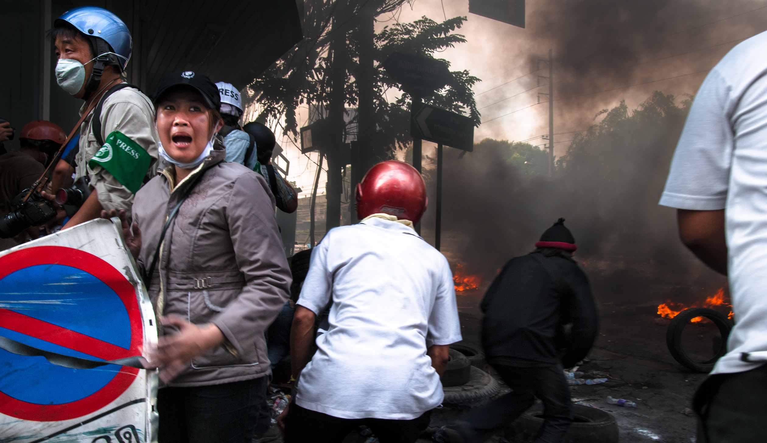 A woman cries as there are still wounded men lying out on Rama 4. The army continues to shoot at the location where they are lying even after people, including Thai journalists and rescue workers, have asked them to stop. One hardcore "red shirt" boy runs out to aid the wounded.